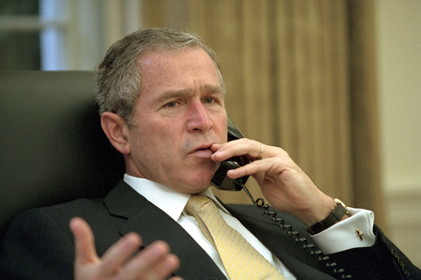 U.S. President George W. Bush talks to South Korean President Kim Dae-jung via telephone, on Wednesday, September 19, 2001, from the Oval Office. White House photo by Eric Draper.